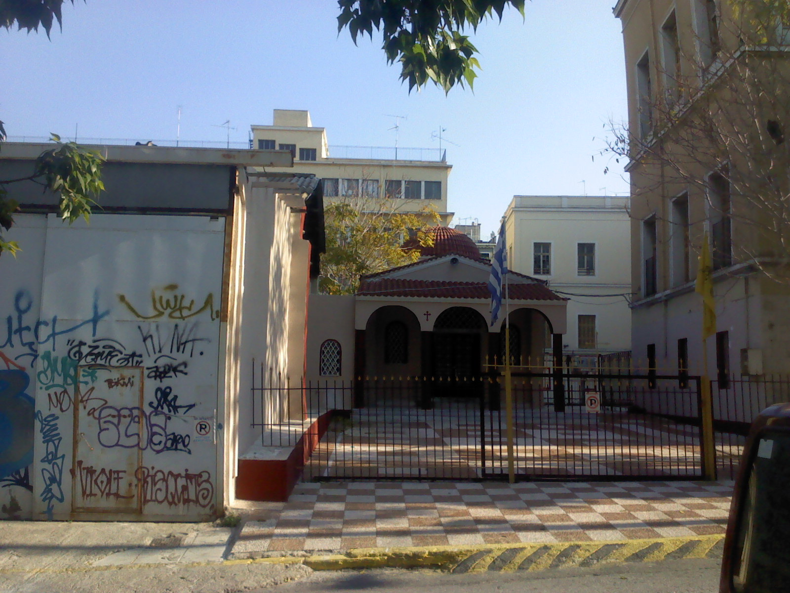 Zaneio Orfanage Pireas